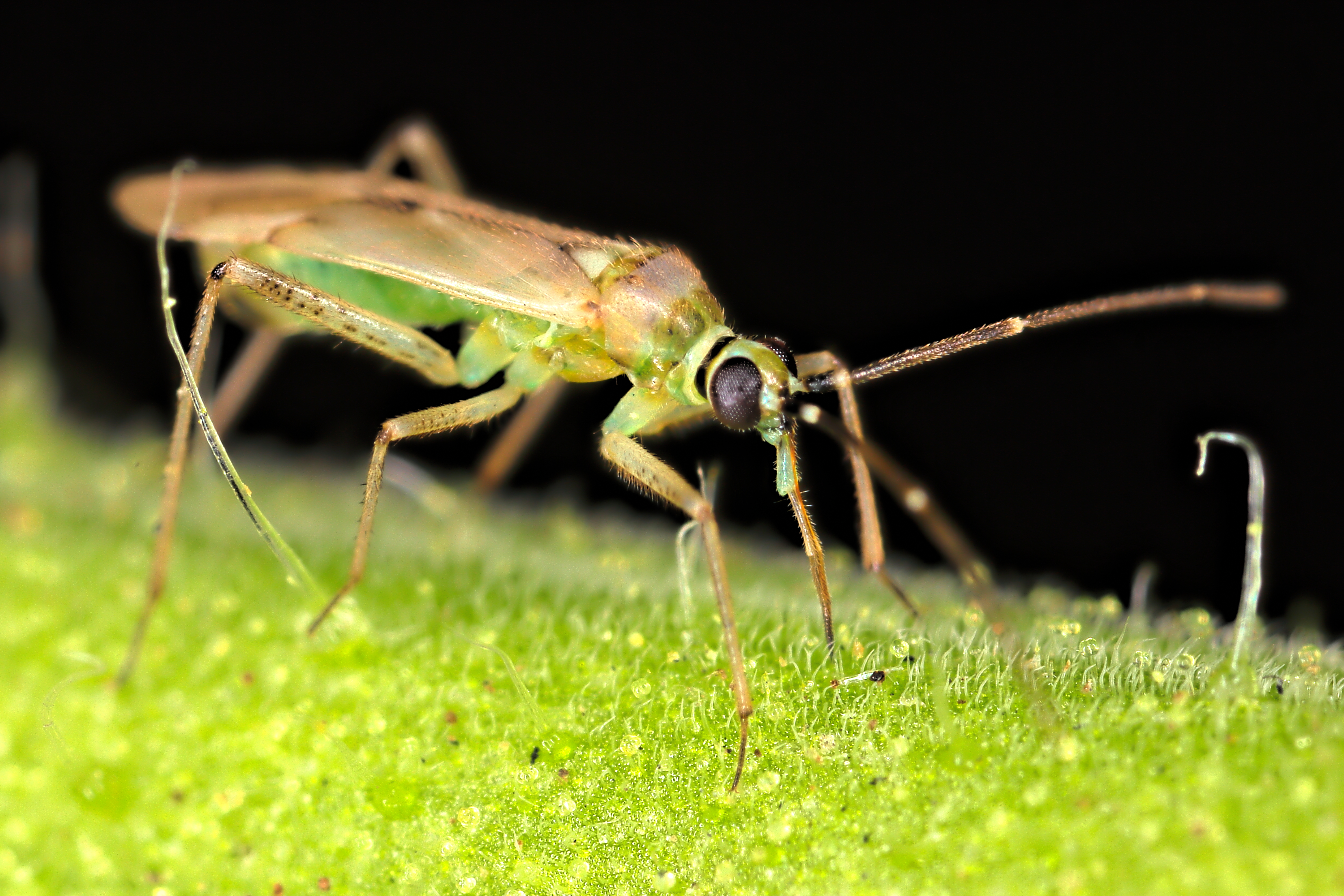 Close up of the Tomato Bug (Engytatus modestus) feeding on the tomato plant sap.